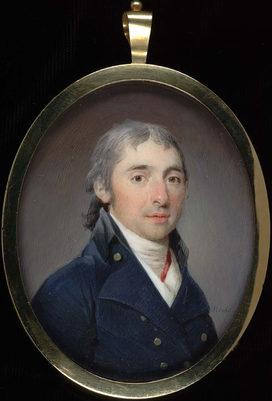 Portrait of Augustus Fricke